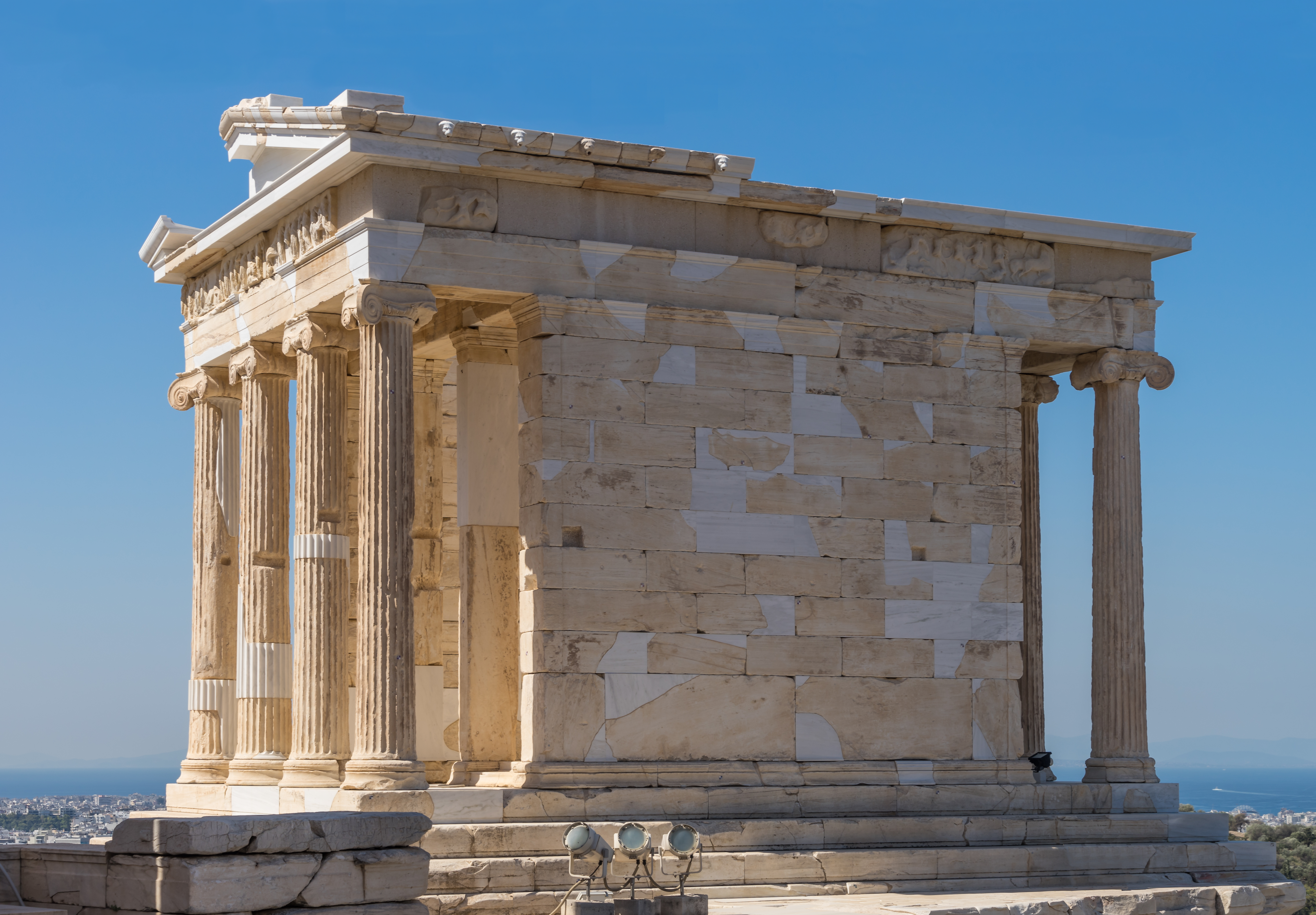 Temple of Athena Nike, from Propylaea, Acropolis, Athens, Greece.